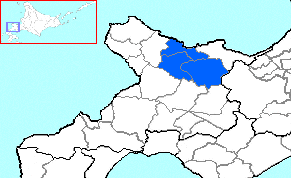 The location of Yoichi District in Shiribeshi Subprefecture, Hokkaido Prefecture, Japan.